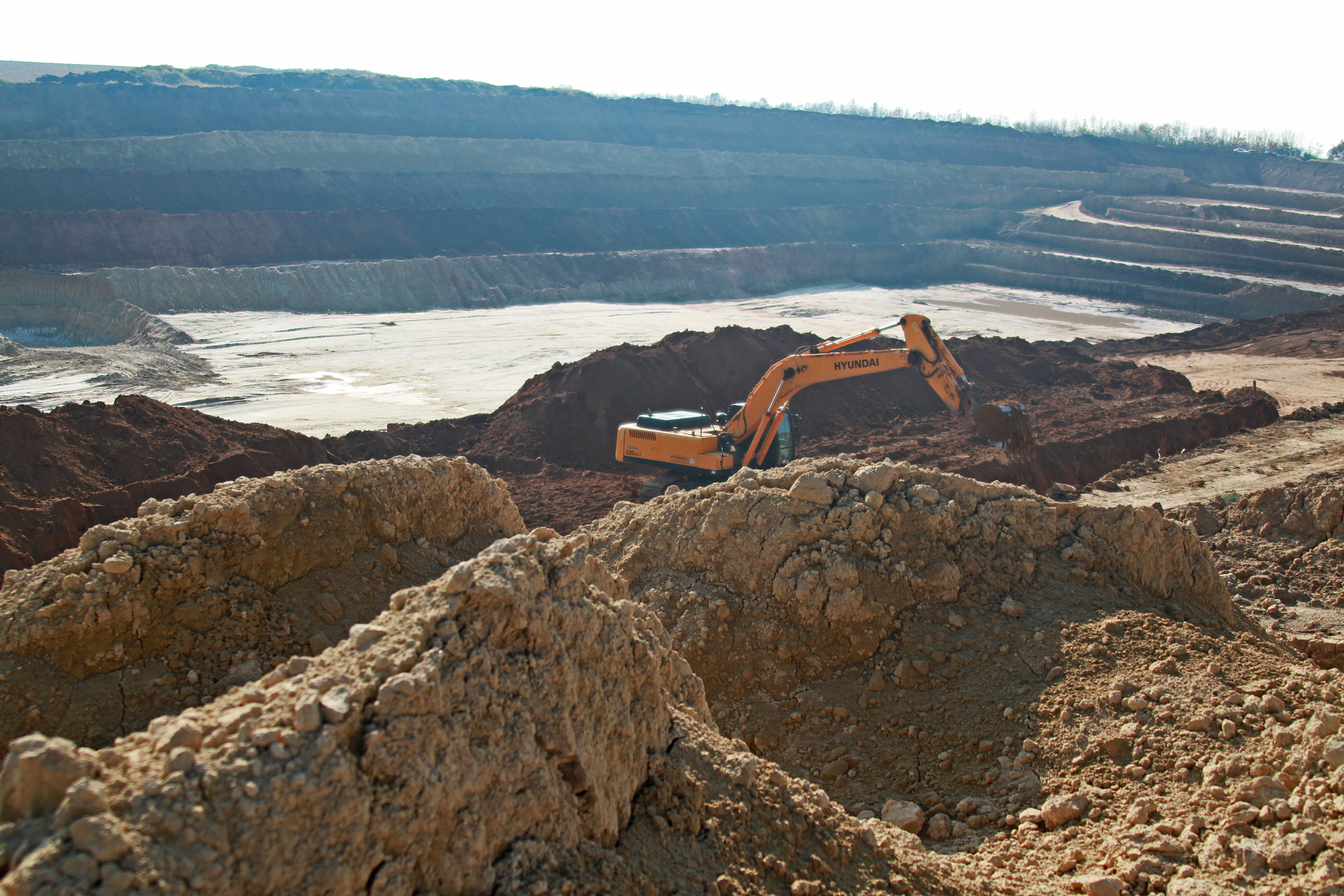 Birzuliv mine, October 2011